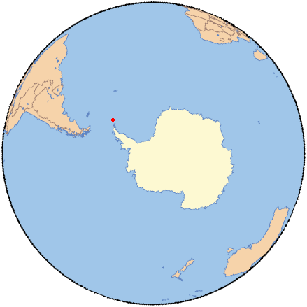 Location map for Orcadas Base